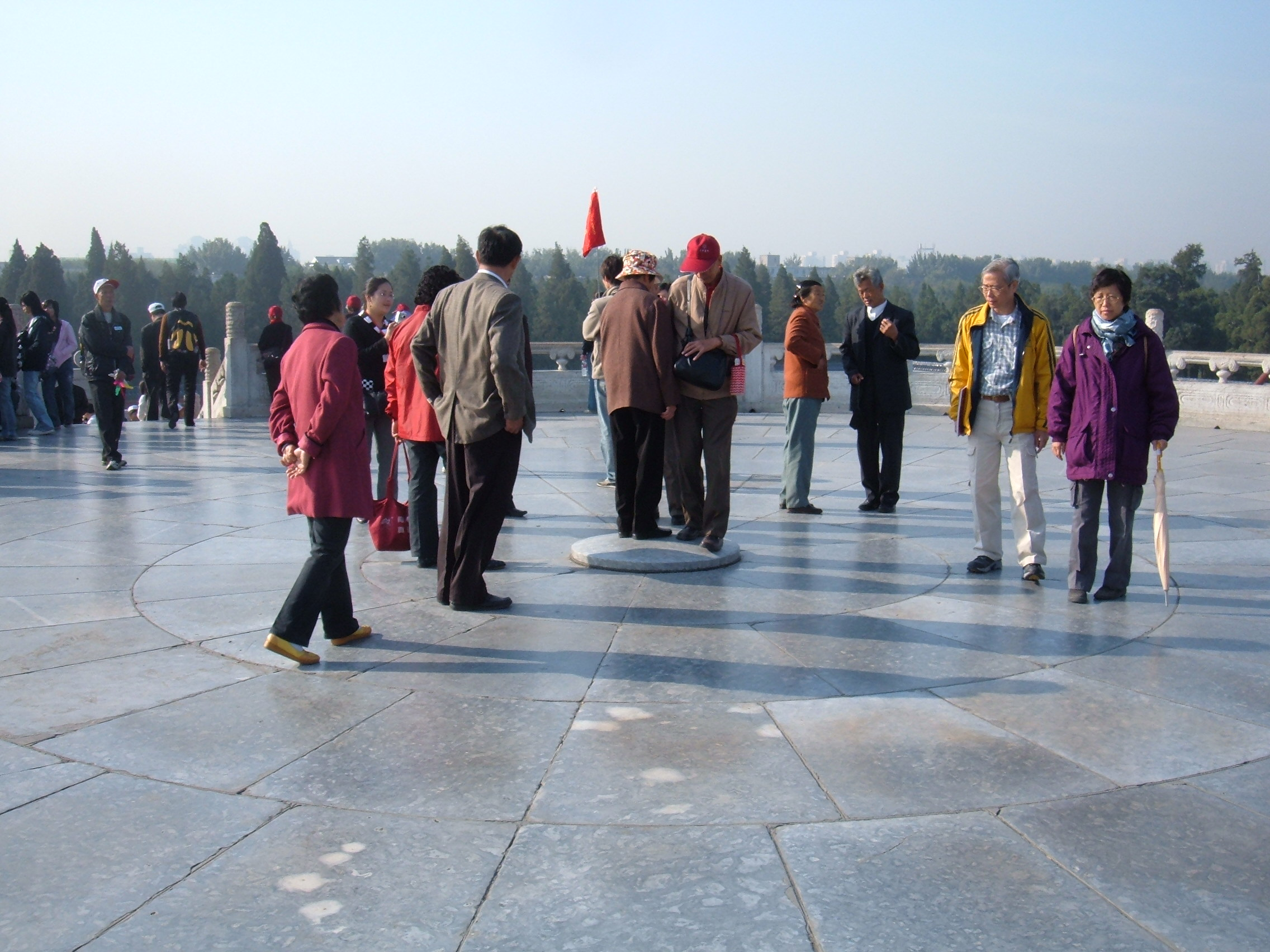 The central stone of the Earthly Mount in Temple of Heaven Park in Beijing, PRC. Tourists commonly pose for photos while standing on it.